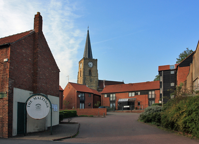 The Maltings, Malton St Leonard's Catholic Church makes a good backdrop to this housing development.